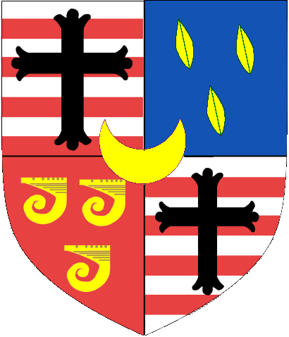 Arms of Leveson-Gower, Earl Granville: Quarterly 1st & 4th barry of eight argent and gules a cross flory sable (Gower); 2nd: azure, three laurel leaves or (Leveson); 3rd: Gules, three clarions or (Granville) over all a crescent for difference (Debrett's Peerage, 1968, p.505)